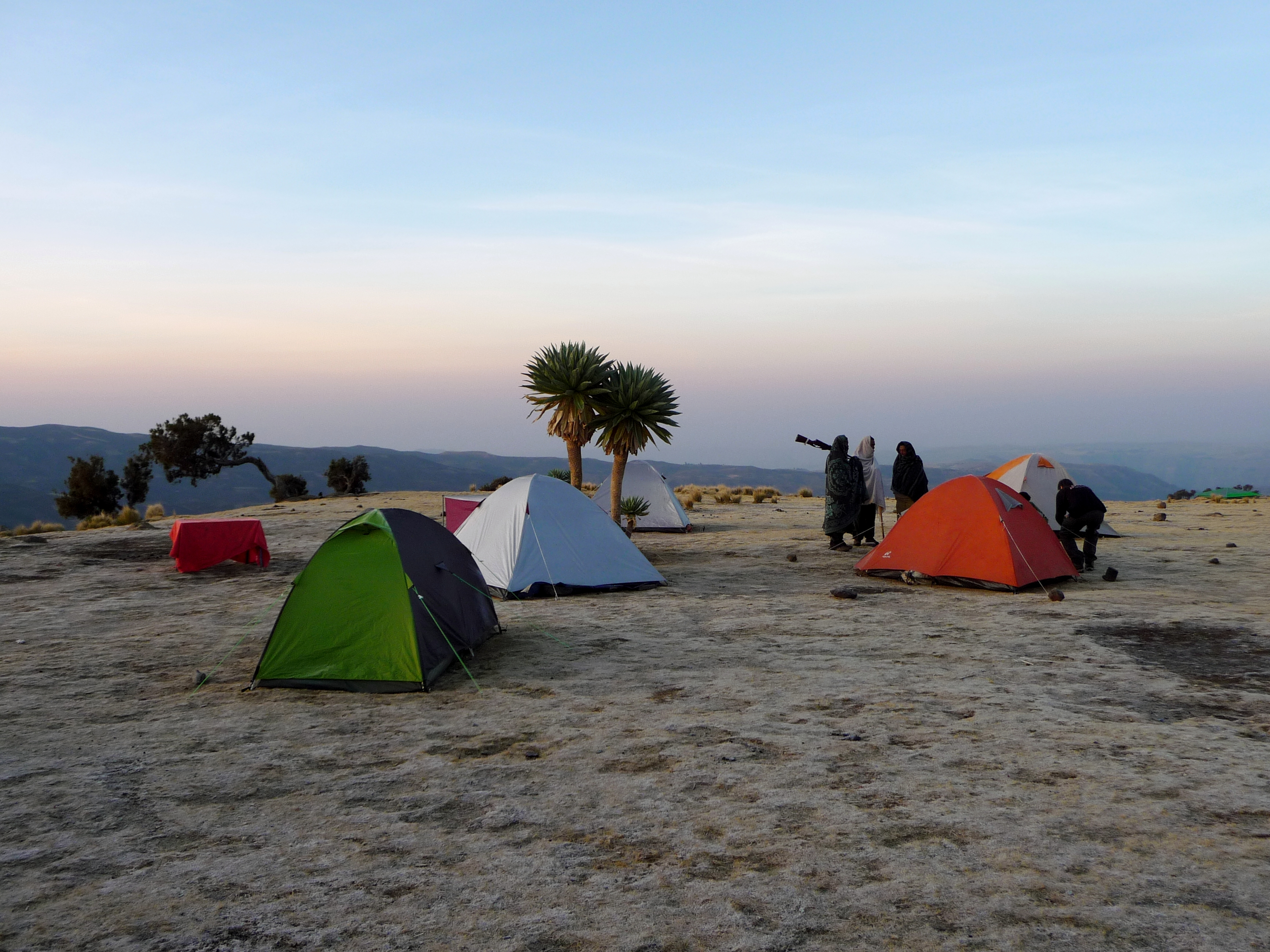 Early morning in the Geech Camp in the Simien Mountains (Amhara Region, Ethiopia).